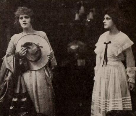 Still from the American drama film serial A Woman in Grey (1920) with Arline Pretty, on page 99 of the January 3, 1920 Exhibitors Herald.